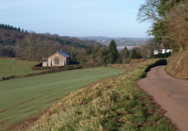 Chapel at Posbury St Luke's dates from 1835 and sits on a col along the ridge between the Culvery and Yeo valleys in a rather isolated position . Here the lane to it is skirting Posbury Clump on the right.